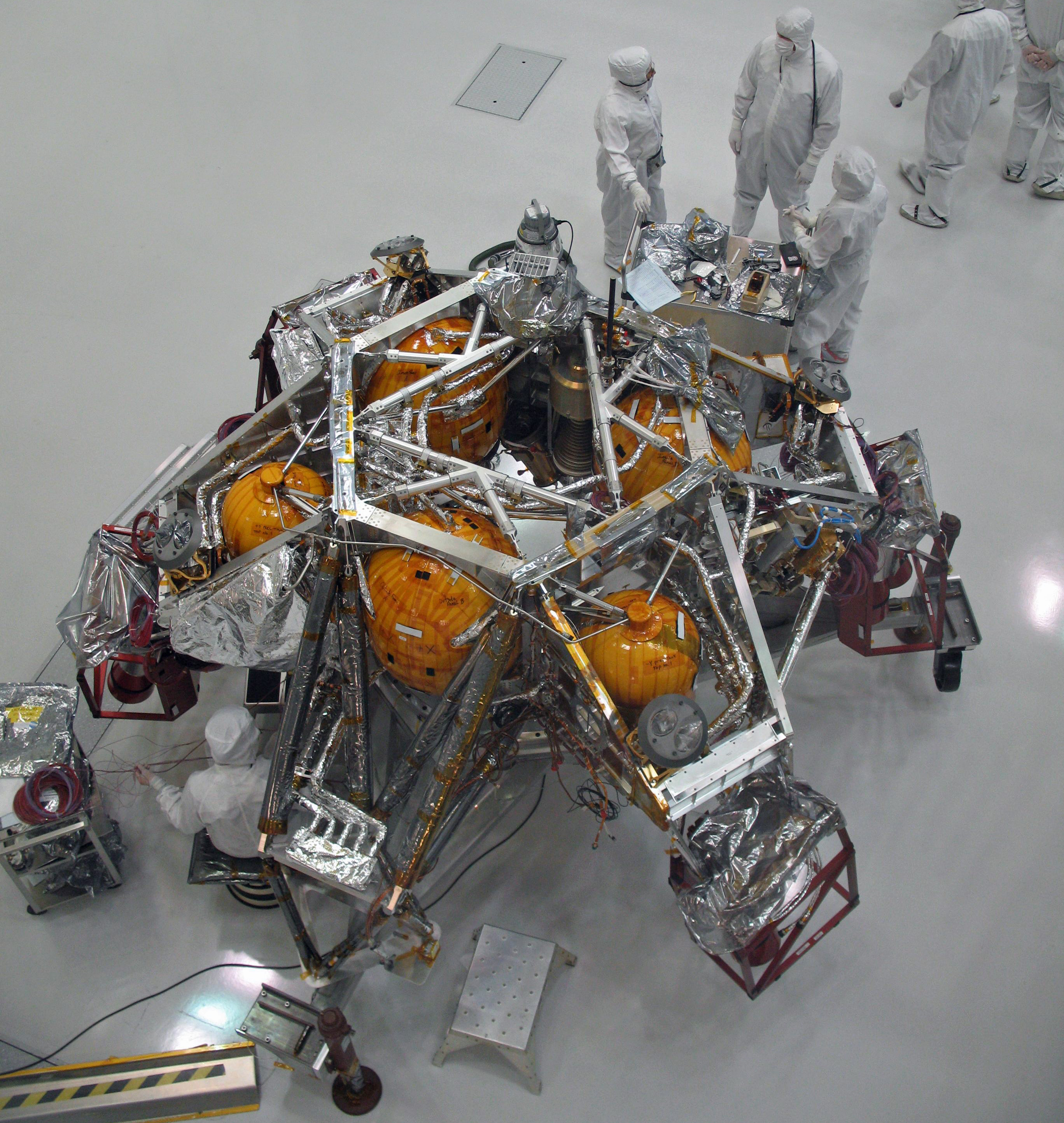 This image from early October 2008 shows personnel working on the descent stage of NASA's Mars Science Laboratory inside the Spacecraft Assembly Facility at NASA's Jet Propulsion Laboratory, Pasadena, Calif. The descent stage will provide rocket-powered deceleration for a phase of the arrival at Mars after the phases using the heat shield and parachute. When it nears the surface, the descent stage will lower the rover on a bridle the rest of the way to the ground. The larger three of the orange spheres in the descent stage are fuel tanks. The smaller two are tanks for pressurant gas used for pushing the fuel to the rocket engines.